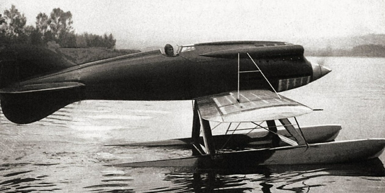 Italian Macchi M.39 racing floatplane